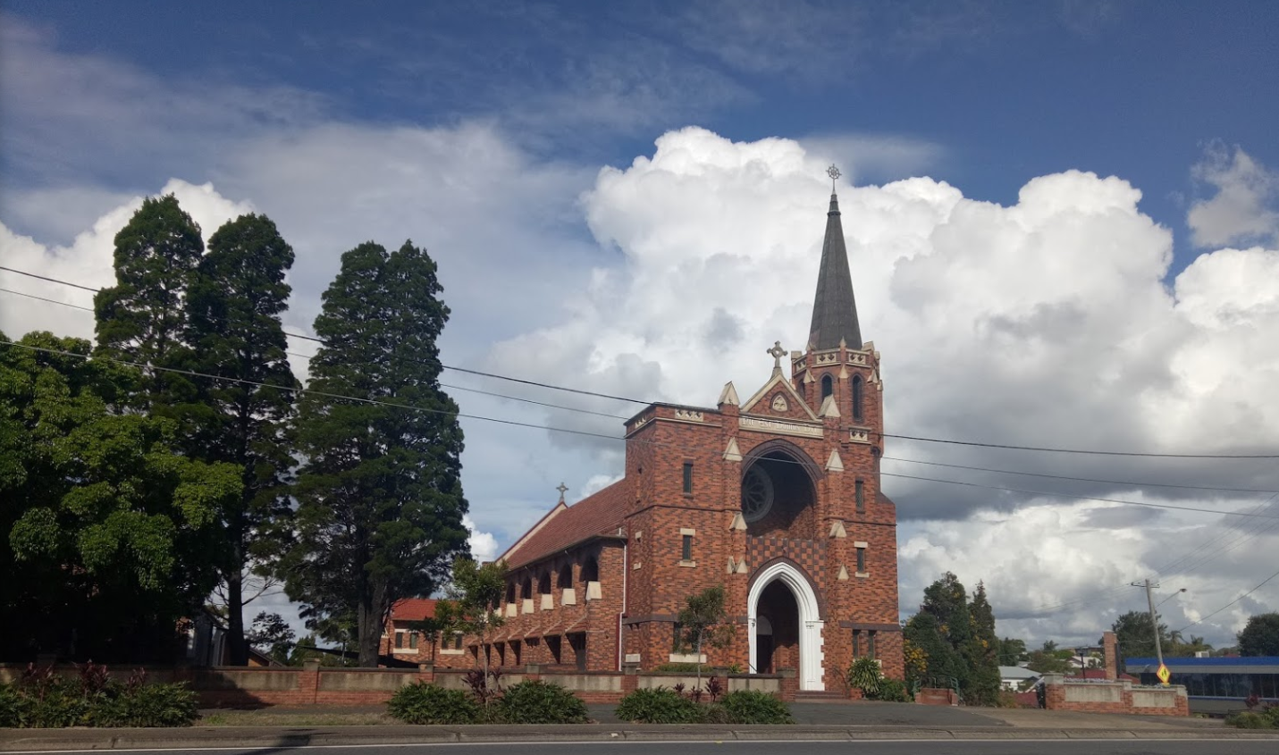 Mary Immaculate Church Today